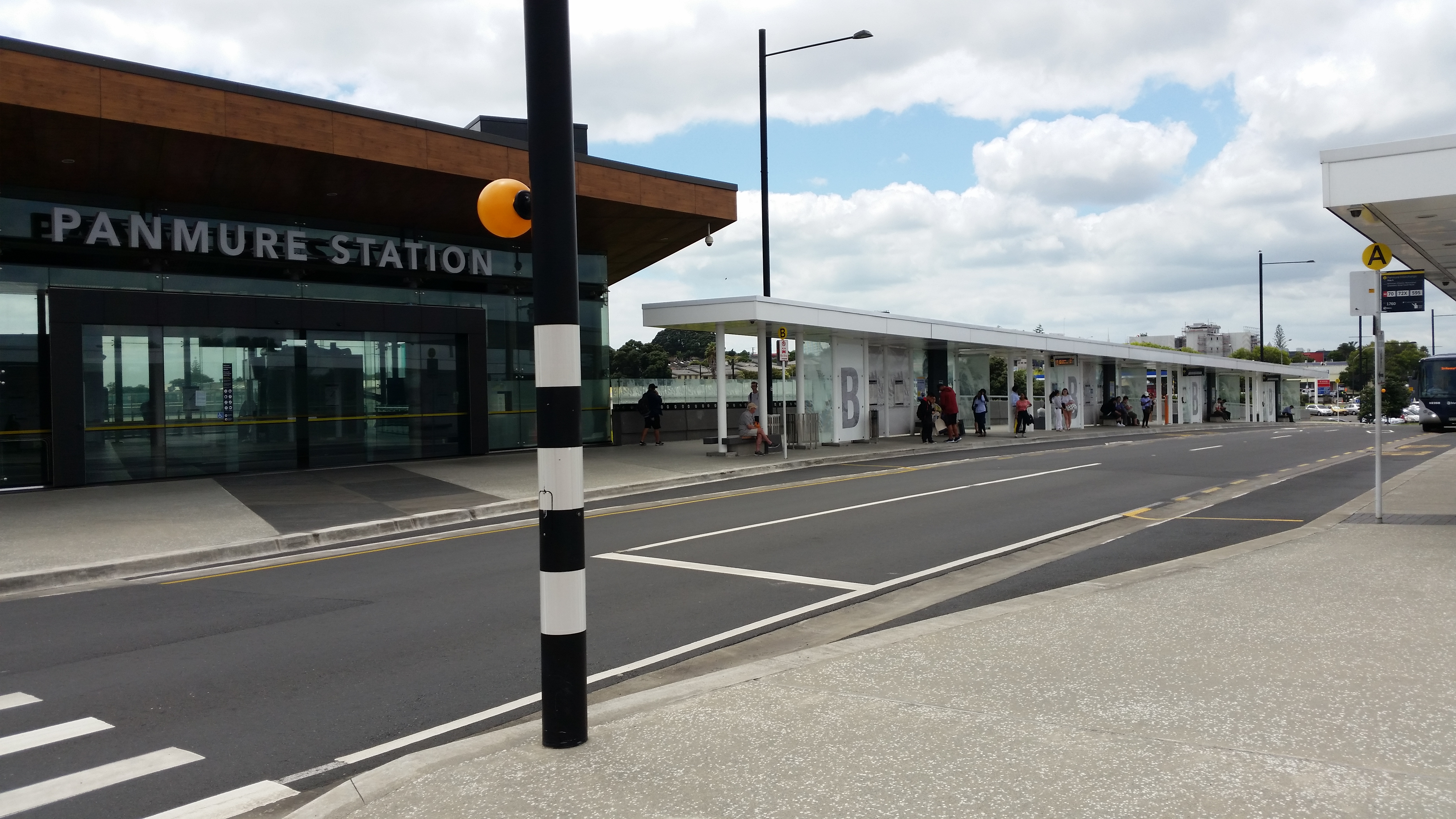 Panmure railway station main entrance and adjacent bus interchange, Auckland, New Zealand, 25 January 2018